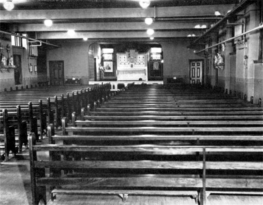 The parish sanctuary in the basement of the school building in 1910